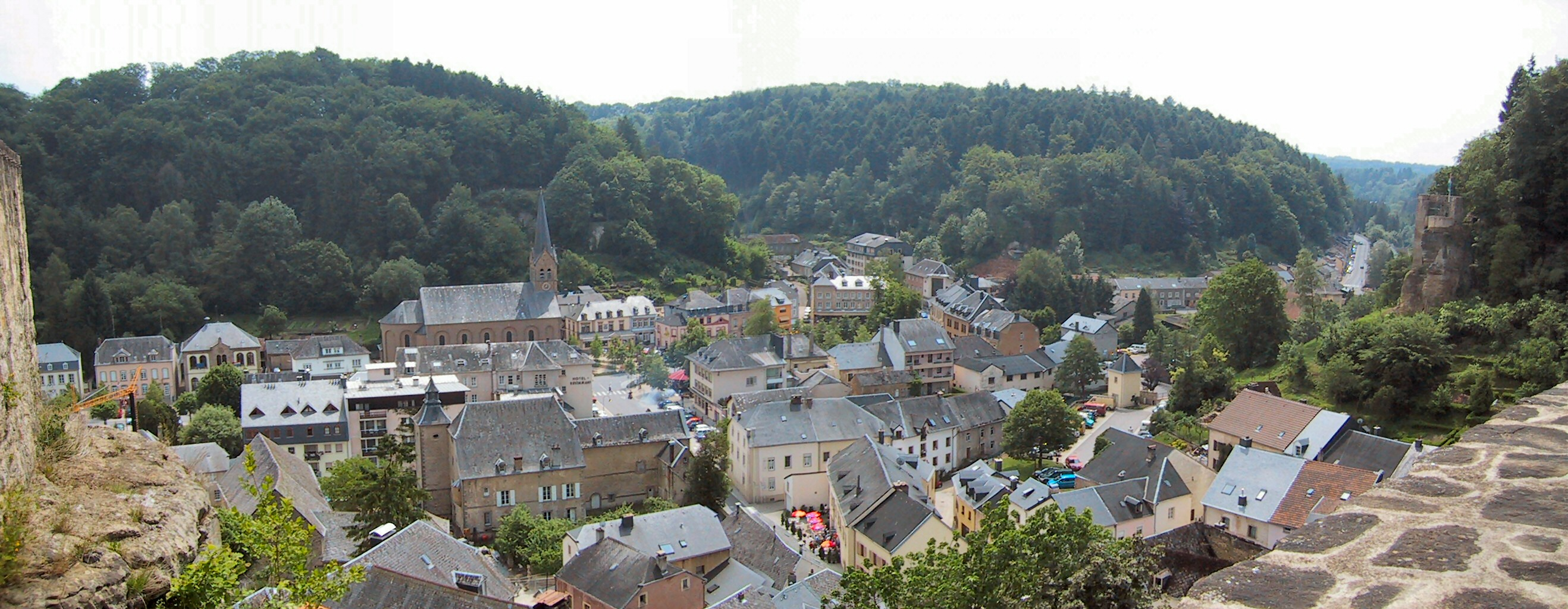 Larochette Luxembourg Picture taken by Hullie Juni 2003